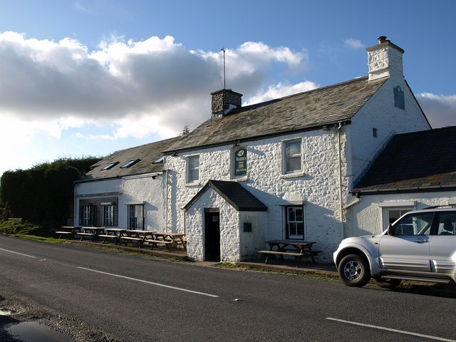 Warren House Inn. Another view of 1583511 in the helpful sunlight, together with a vehicle whose owner was too lazy to park in the parking spaces provided.